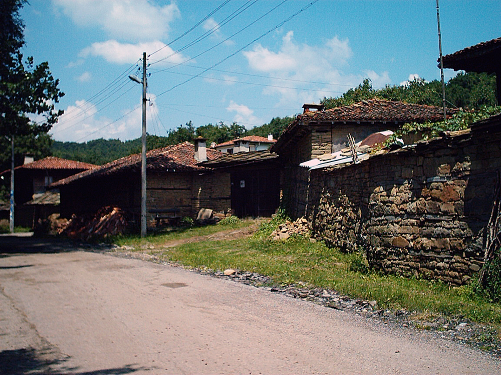 Old houses from Katunishte village, Bulgaria